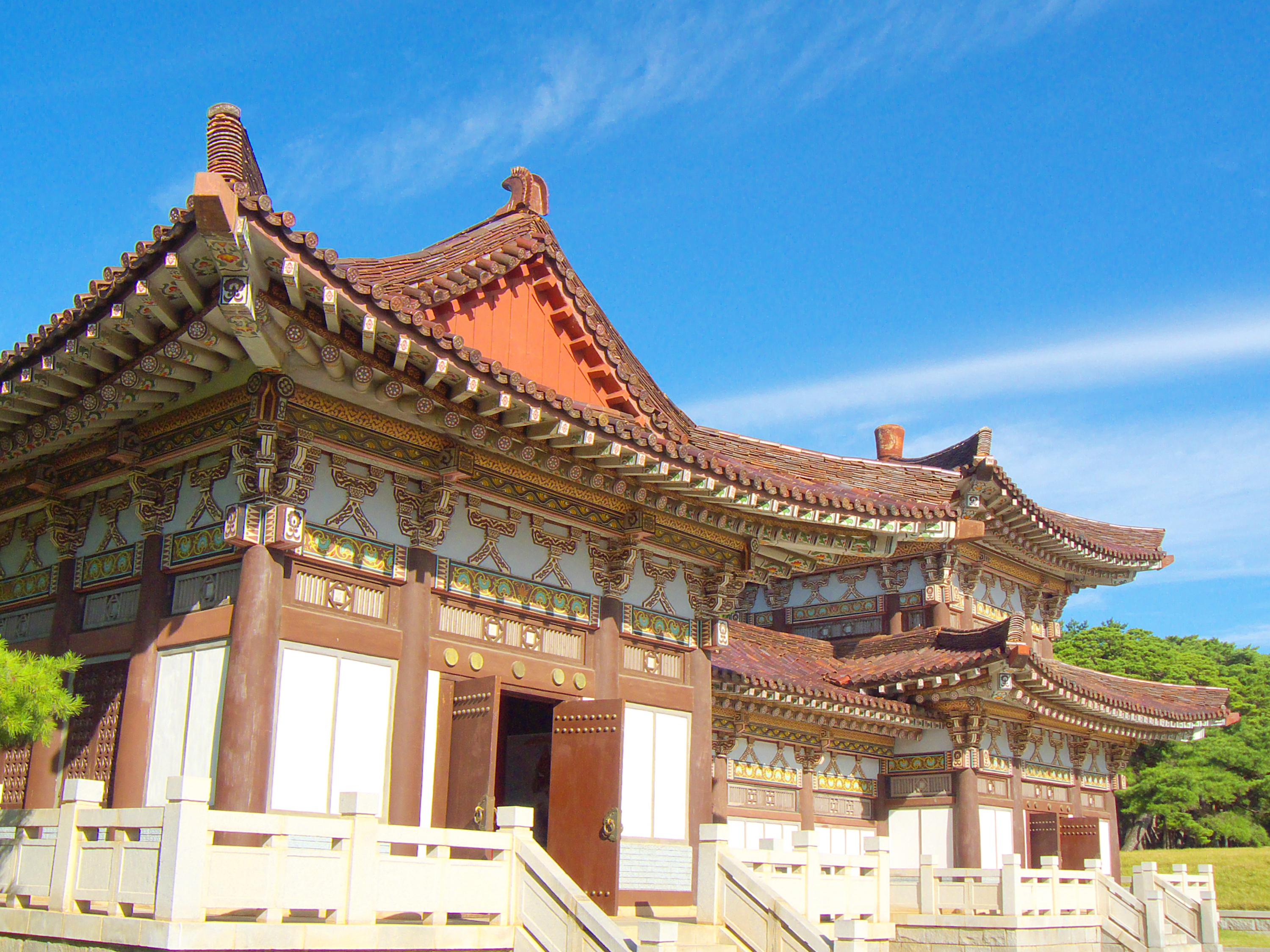 The UNESCO World Heritage listed Tomb of King Tongmyong (259-298BC) is located some 20km south of central Pyongyang, in a remote, serene locale. King Tongmyong is the founder of the Koguryo Kingdom, one of the famed Three Kingdoms of Korea (the other two being Silla and Baekje).